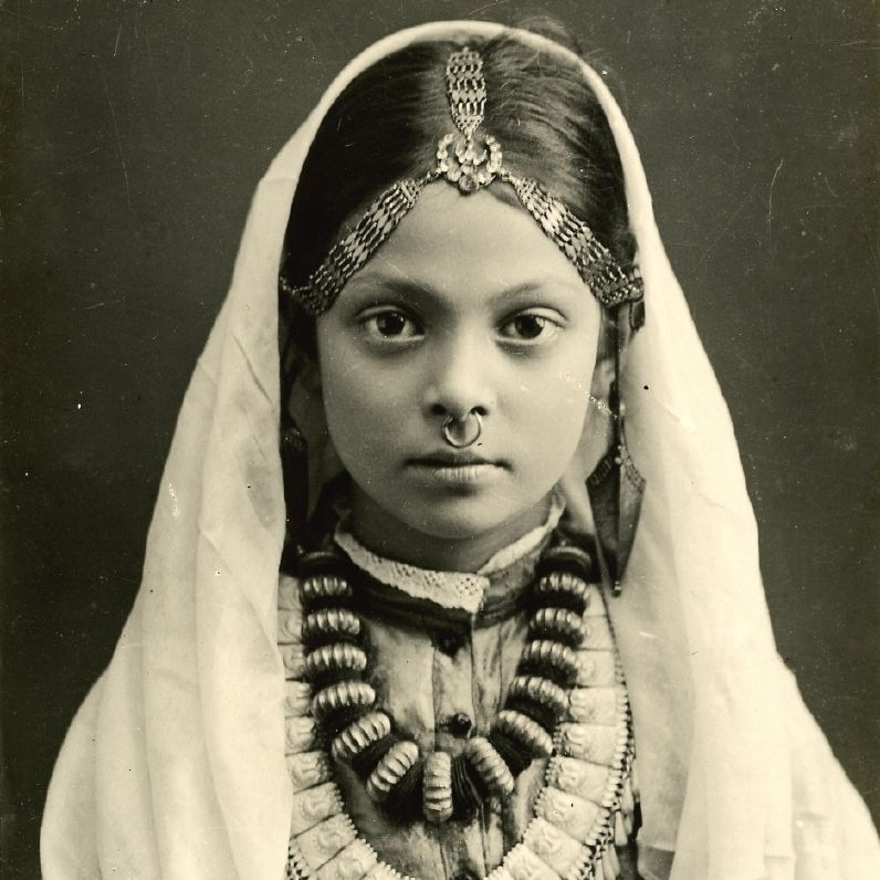 Nepali woman/girl circa 1900, Darjeeling studio, woman of the Hilly culture and racially Indo-Aryan woman of ethno-linguistic Parbatiya Khas group